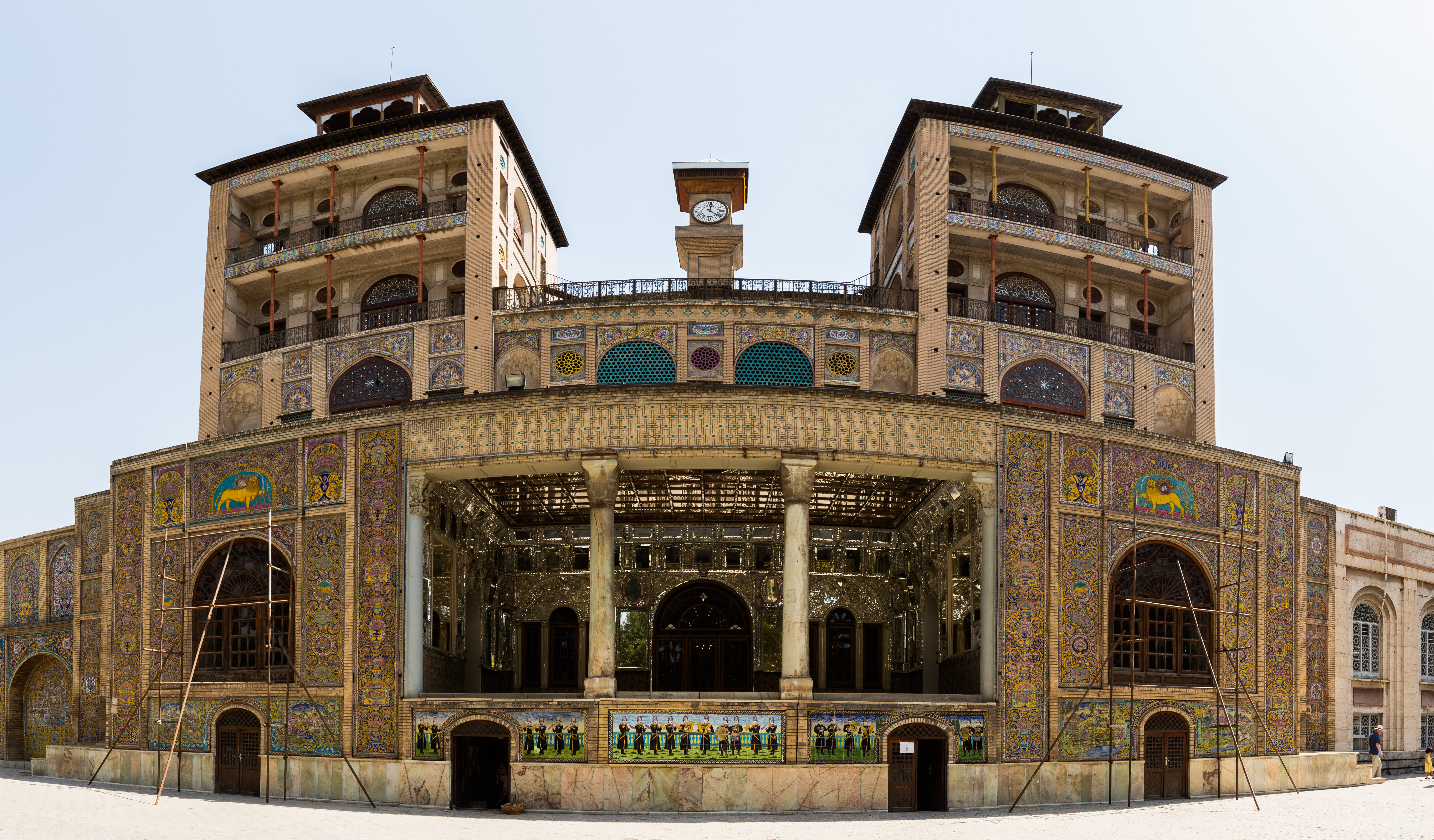 Golestan Palace, Tehran, Iran